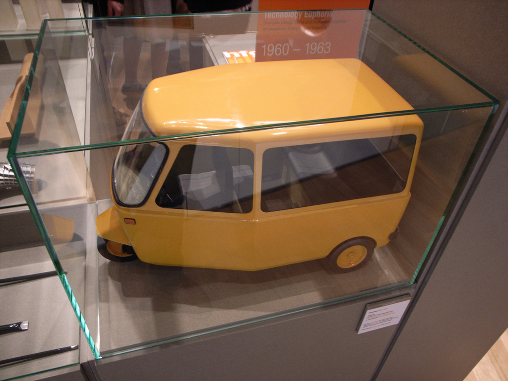 HfG Exhibition, Ulmer Museum. Design model for a Three-wheeled car or Auto Rickshaw